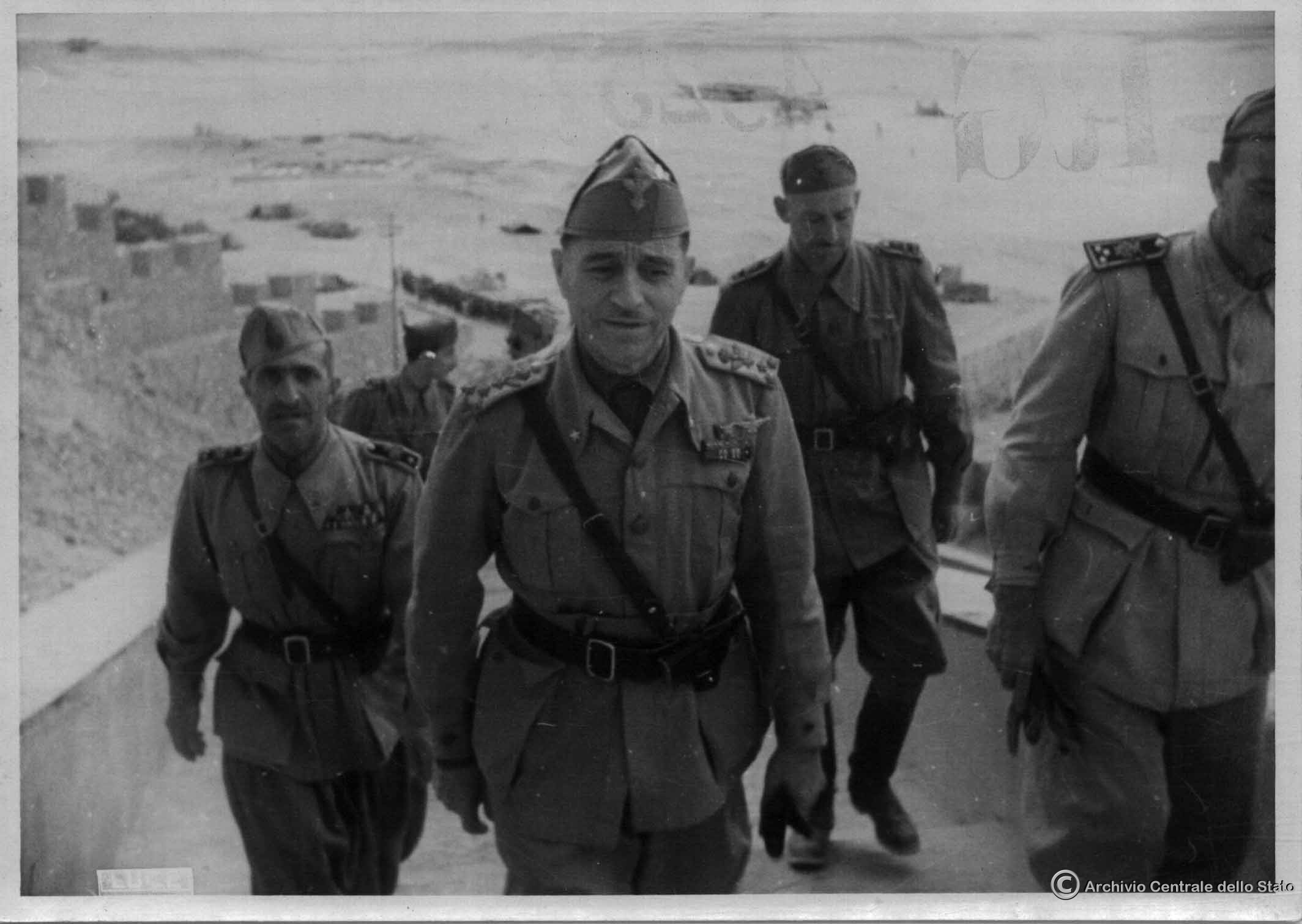 Italian General Ettore Bastico - Supreme Commander of Axis Forces in Libya until February 1943.